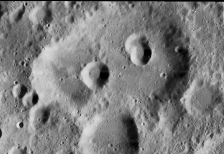 Clairaut (crater), on the moon.